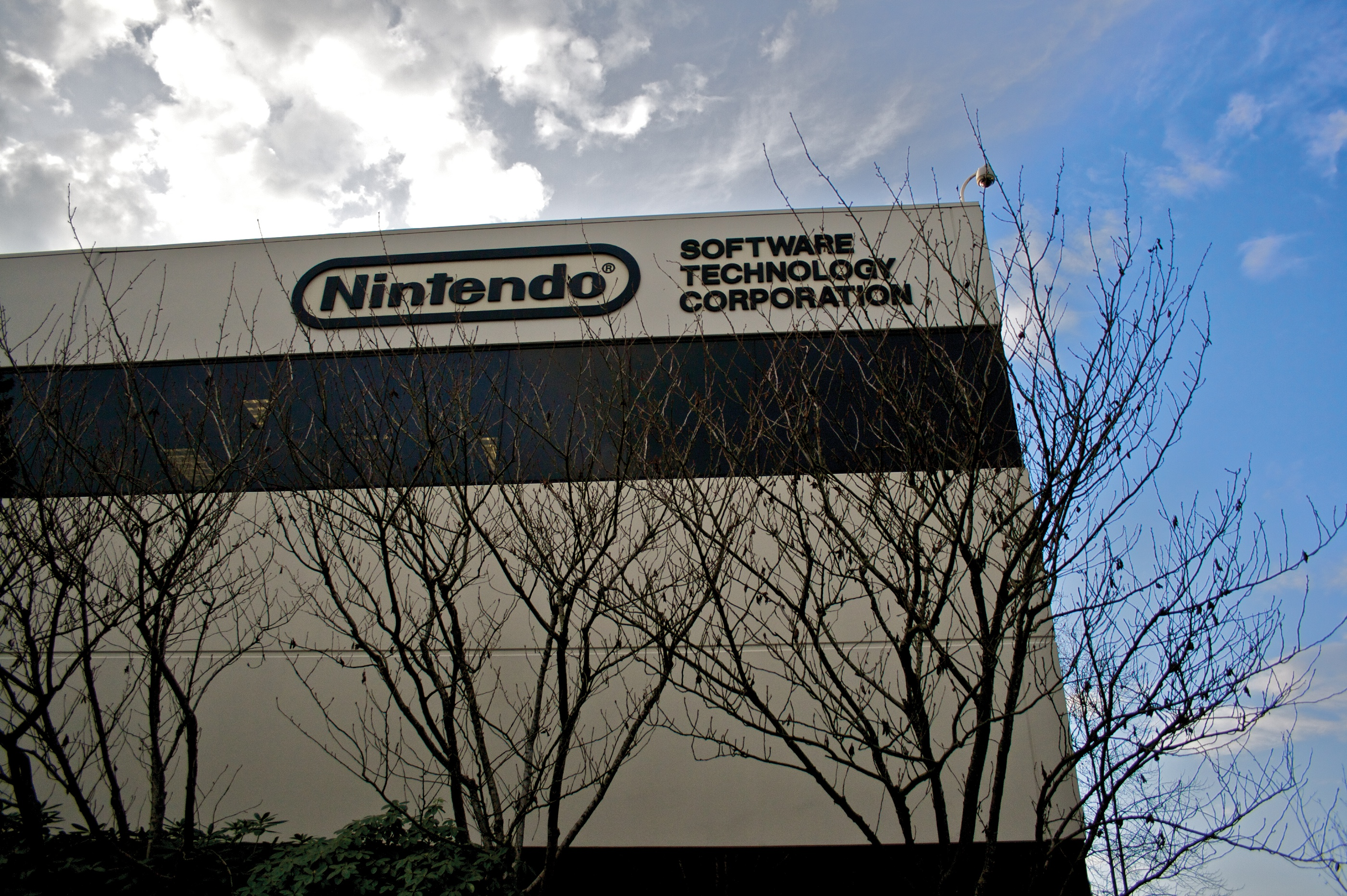 The exterior of Nintendo Software Technology